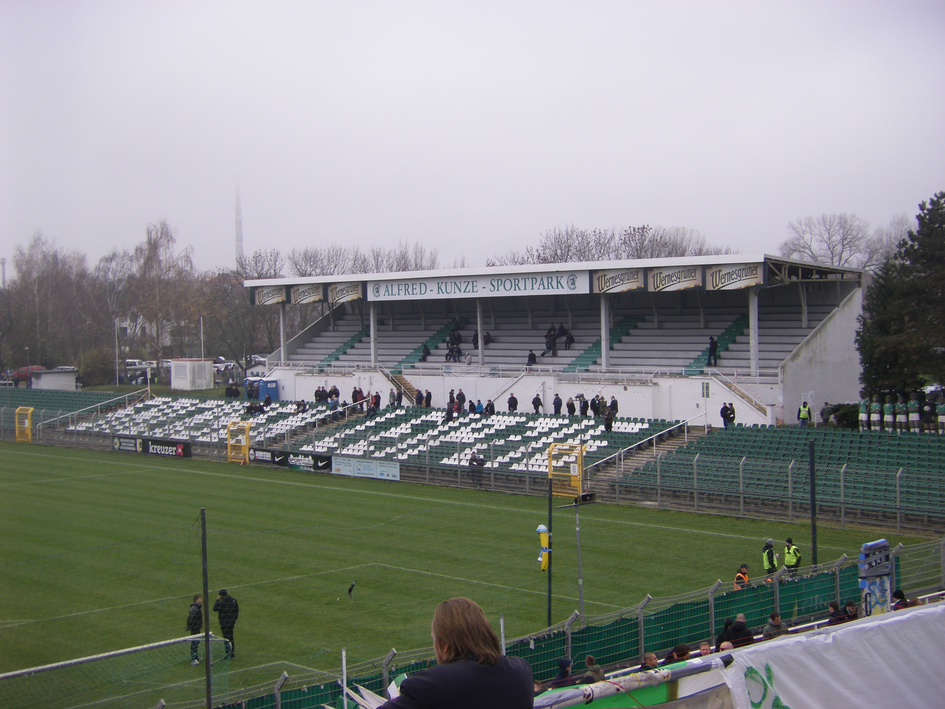 Tribune of Alfred-Kunze-Sportpark, football stadium in which Sachsen Leipzig and Chemie Leipzig play their home matches